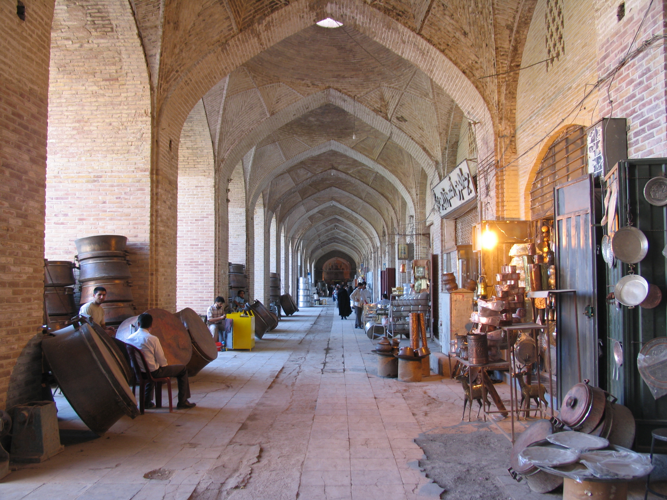 Covered bazaar in Kashan, Iran